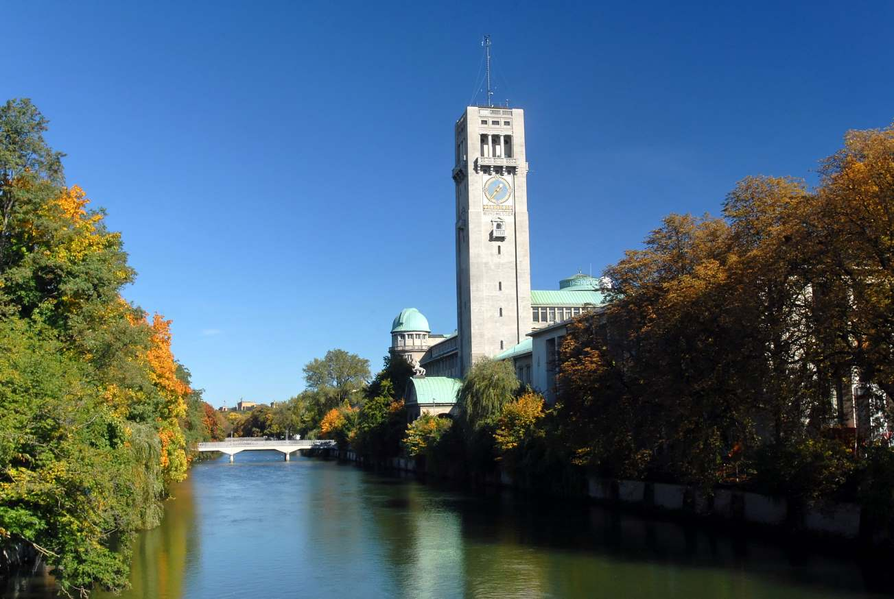 Deutsches Museum and the River Isar: Tower of the Museum